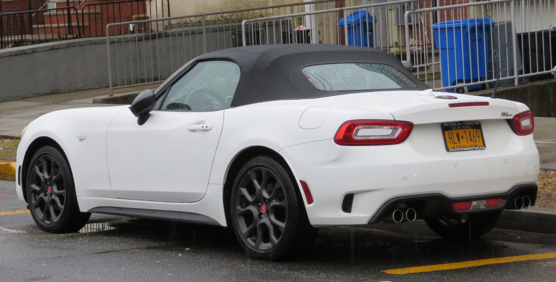 In Queens, New York